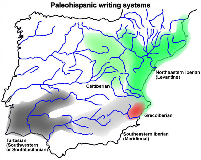 Paleohispanic writing systems map. English